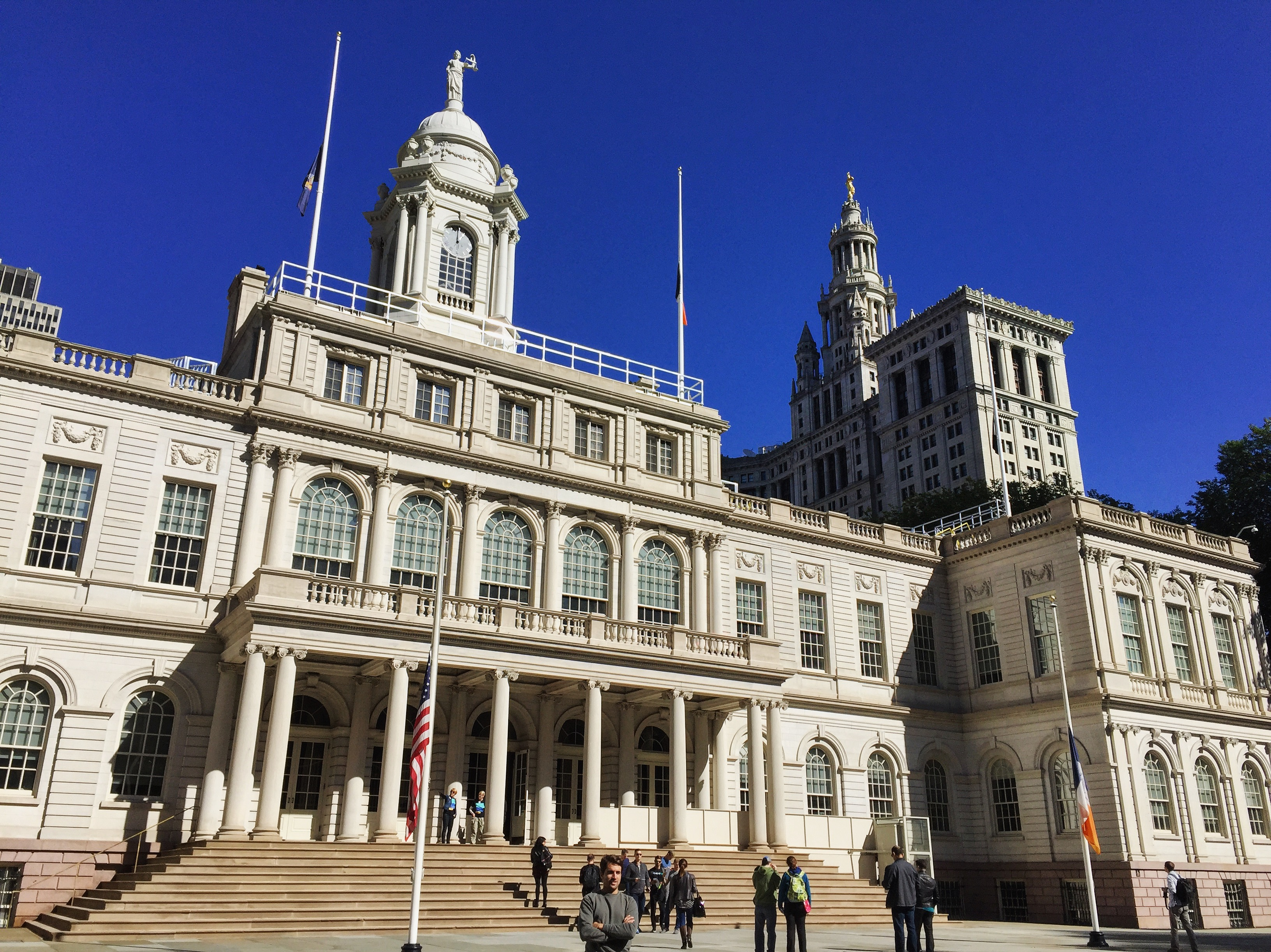 Site: City Hall